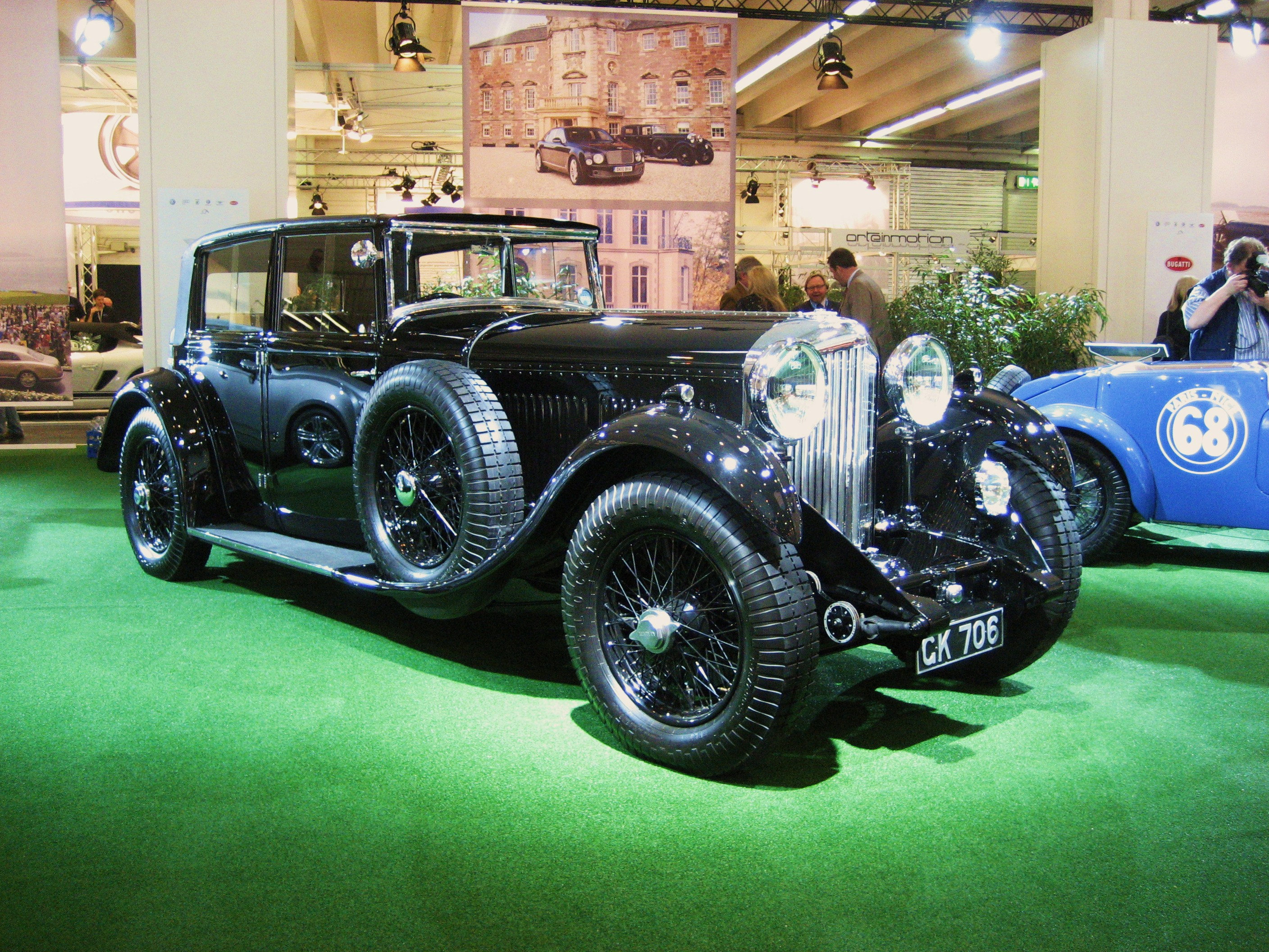 Bentley 8-Litre Weymann saloon by Mulliner, WO's own car.Delivered October 1930, original body: Weymann saloon by H J Mulliner Chassis YF5002 12' wheelbase Engine YF5002 Reg GK 706 Source of data—Vintage Bentleys "This car was the second 8-litre made and for a long time it was W O Bentley's personal car." image 1996